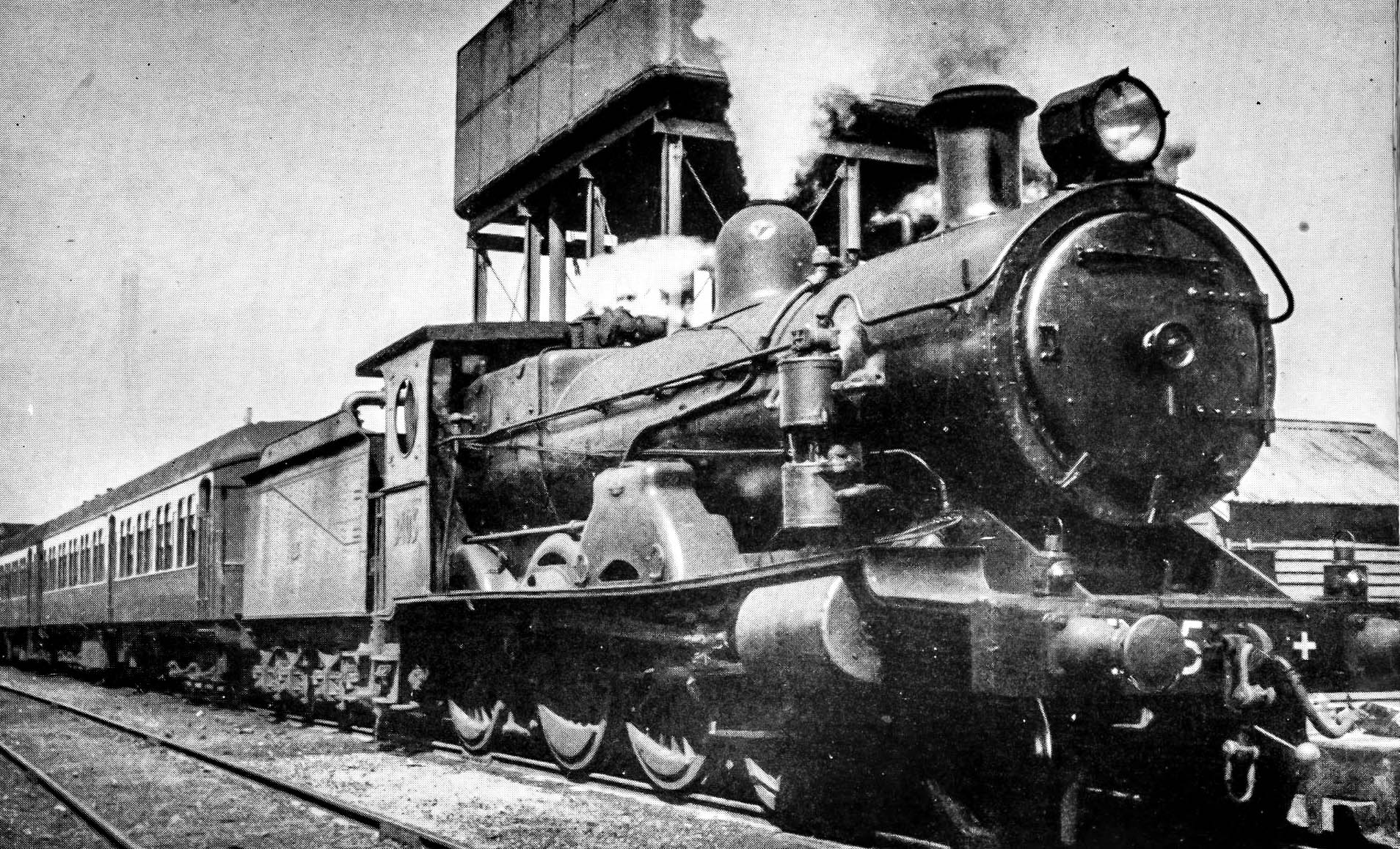 NSWGR Class C34 Locomotive